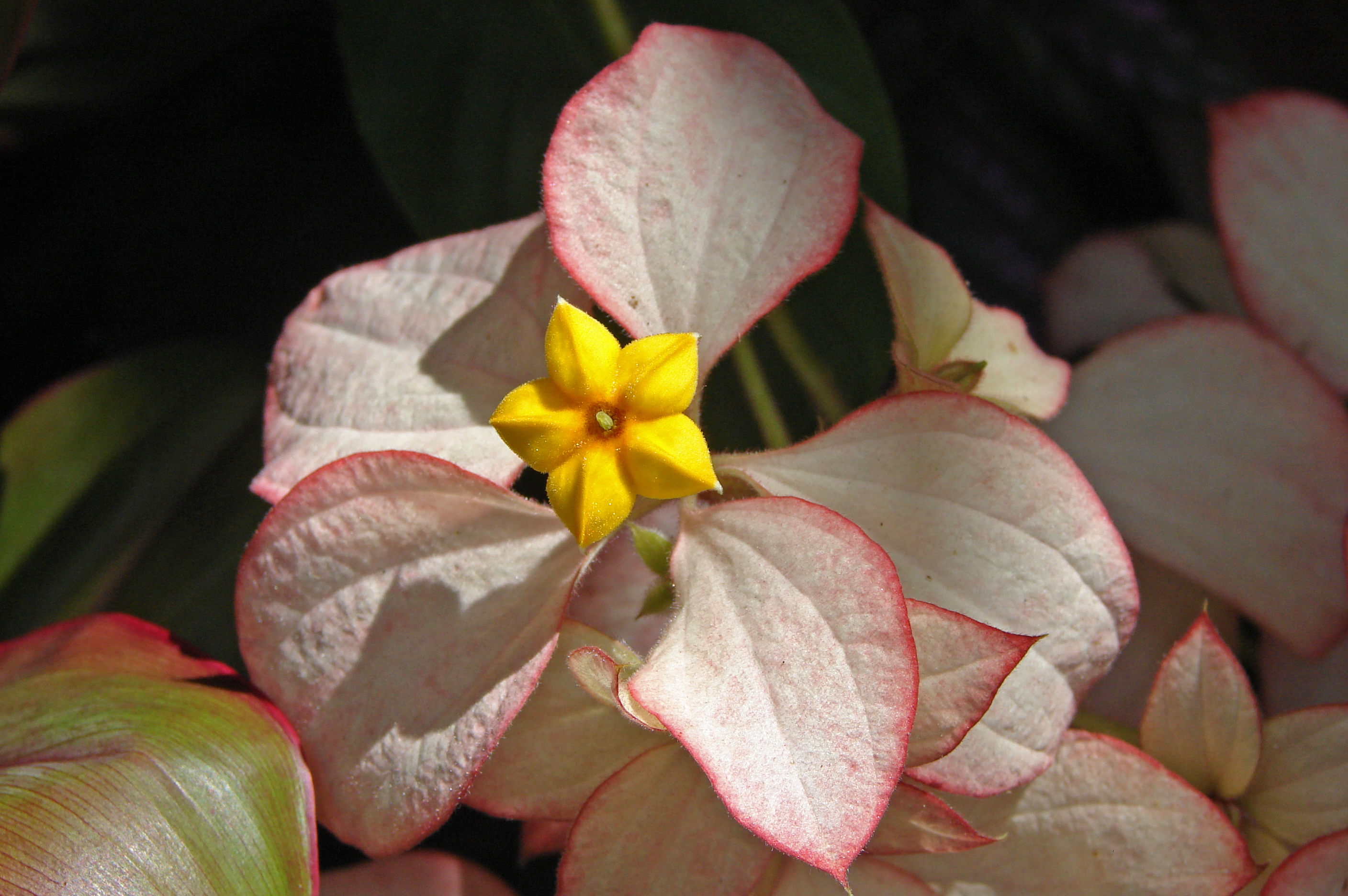 The flower is the small yellow bloom. The whitish pink part is a leaf, or bract. Common names for this tropical plant are Ashanti Blood, Red Flag Bush and Tropical Dogwood.